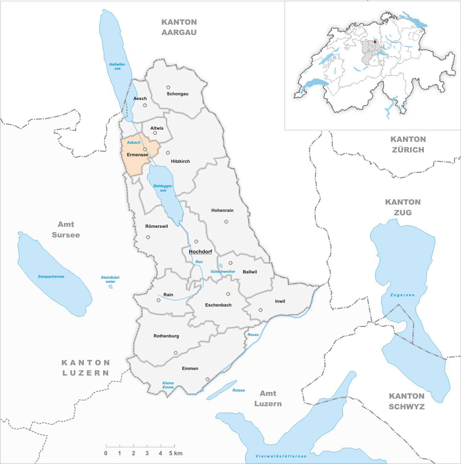 Municipality Ermensee